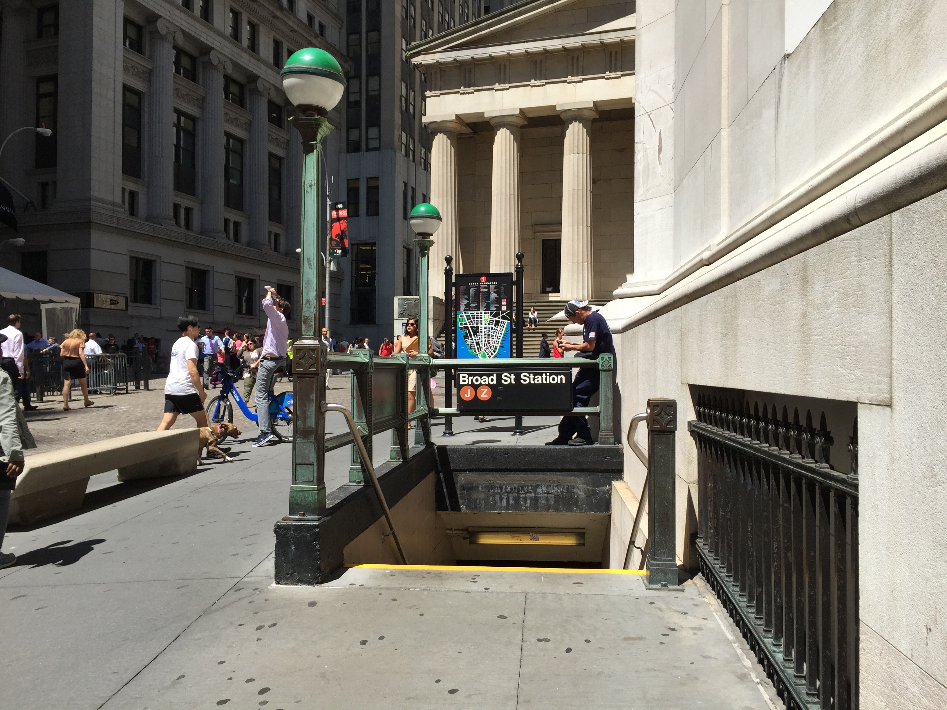 J/Z station entrance next to 23 Wall Street. With the J now operating to Broad Street at all times, the sign indicating to use the 4/5 at Wall Street is removed.